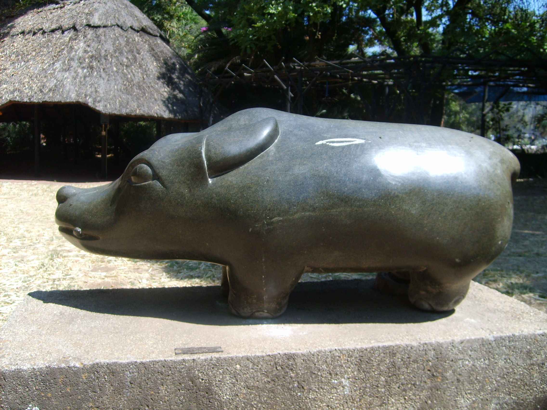 PC - 8600 - 0173, Matemera Bernard, Warthog, 1986